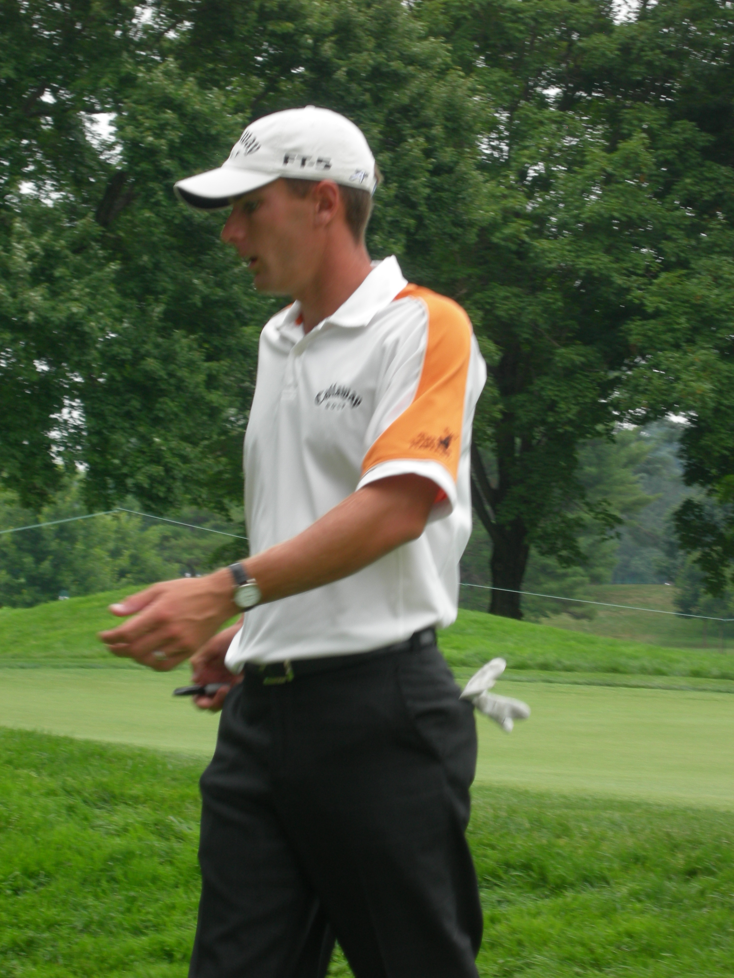 Charles Howell III signing autographs after the 4th green of the Congressional Country Club's Blue Course during the Earl Woods Memorial Pro-Am prior to the 2007 AT&T National tournament.